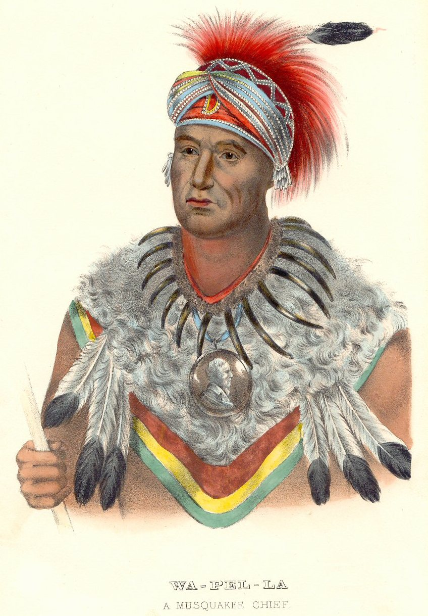 WA-PEL-LA THE PRINCE, A MUSQUAKEE CHIEF, painted by Charles Bird King Lithographed, colored and published ca. 1836-44 by J.T. Bowen, Philadelphia. SI.1990.019 H.10 1/4" X W.6 3/8" (octavo)